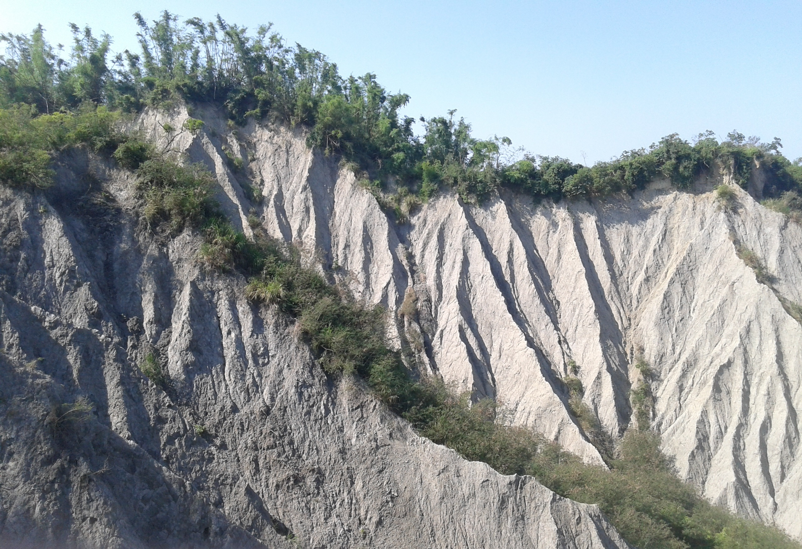 Tianliao Moon World.